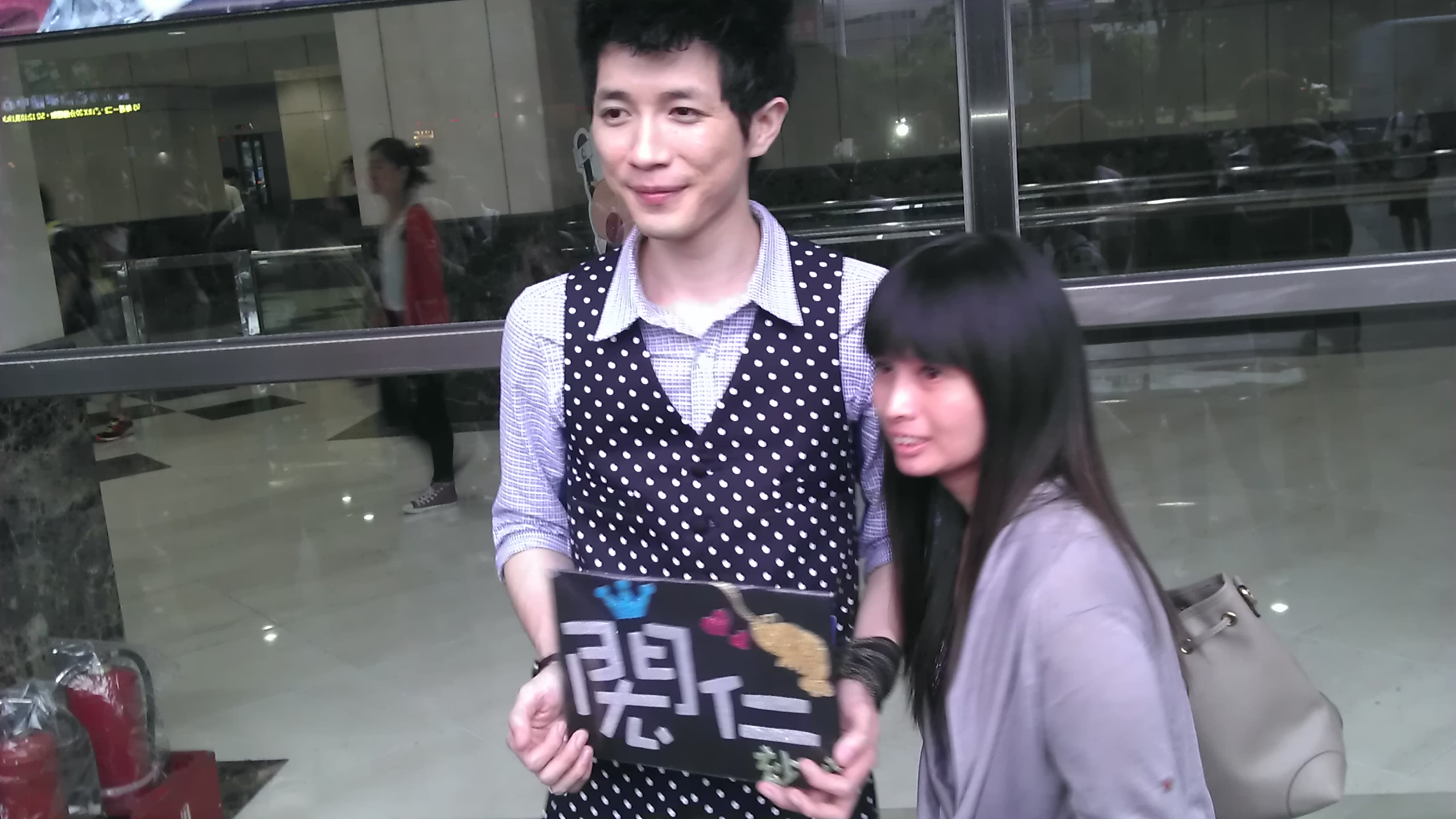 The singer Hung-jen Hsiao (Chinese: 蕭閎仁) with his fan after the TV show Super Star: I Want to Be A Singer (Chinese: Super Star我要當歌手).